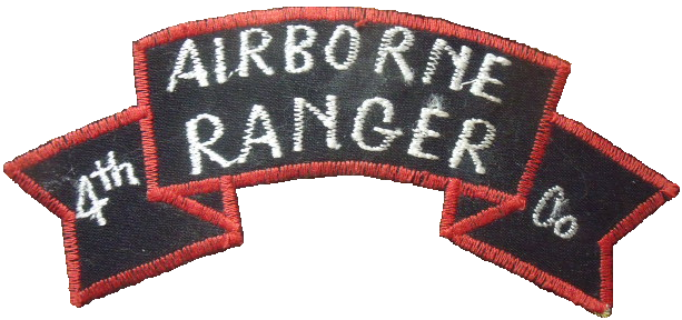 shoulder sleeve insignia